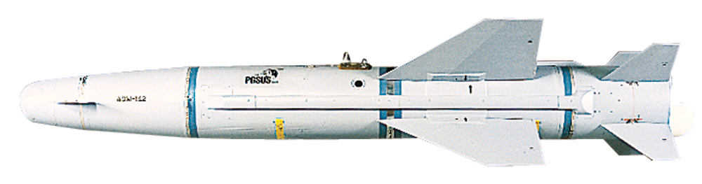 AGM-142 Missile. Primary function: Precision-guided missile. Dimensions: Length 15 ft. 10 in., diameter 21 in., wingspan 6 ft. 6 in. Speed: Classified. Range: More than 50 miles.